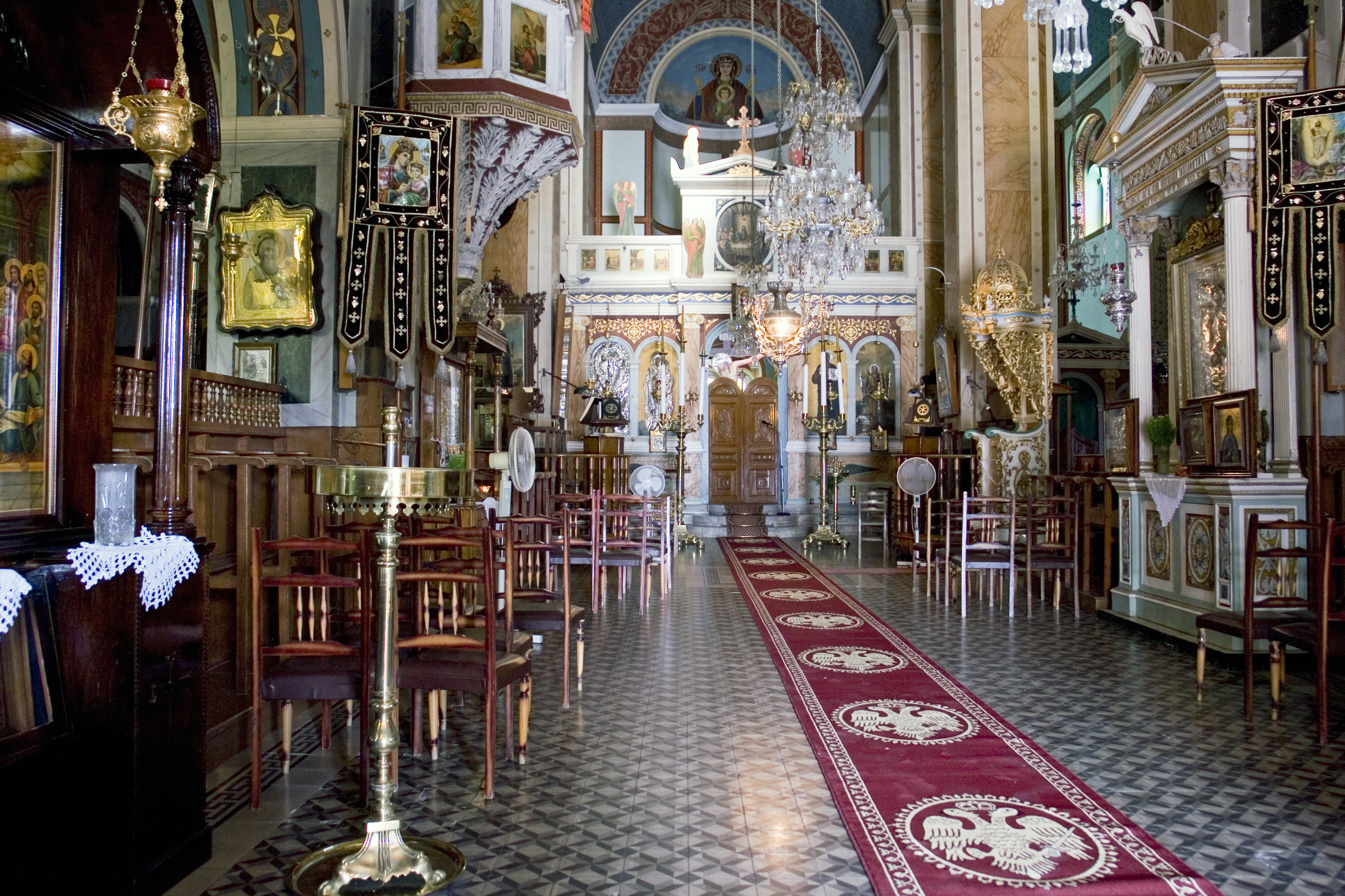 Syros, Innenansicht der Anastasi (Resurrection) church (?) in Ermoupolis